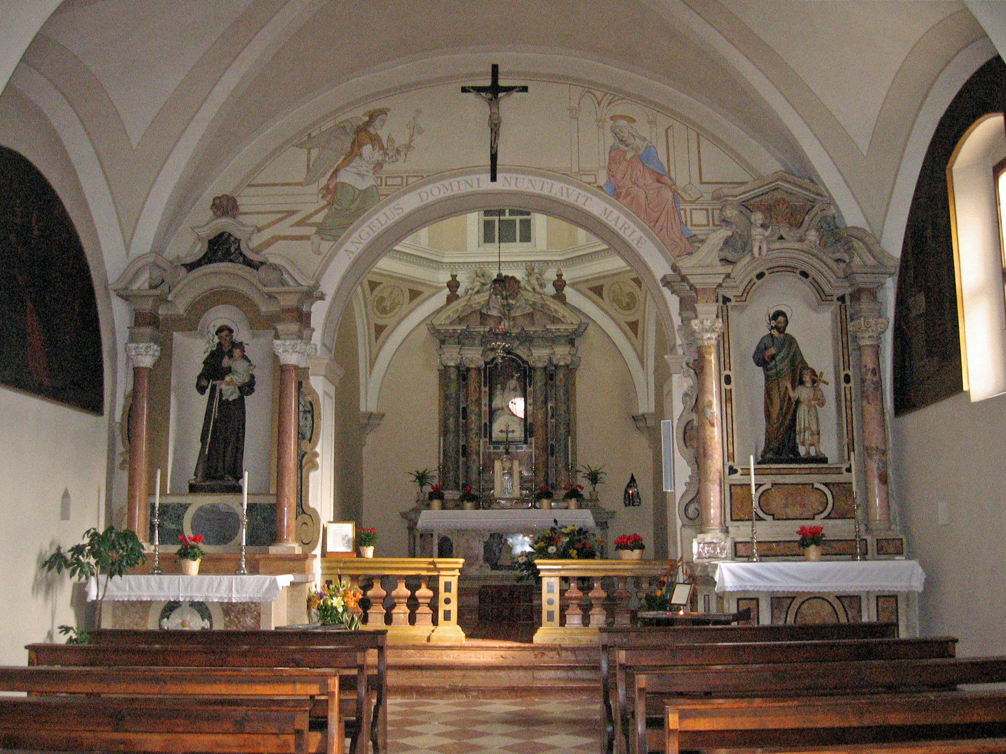 Interior of Montalbano di Mori church